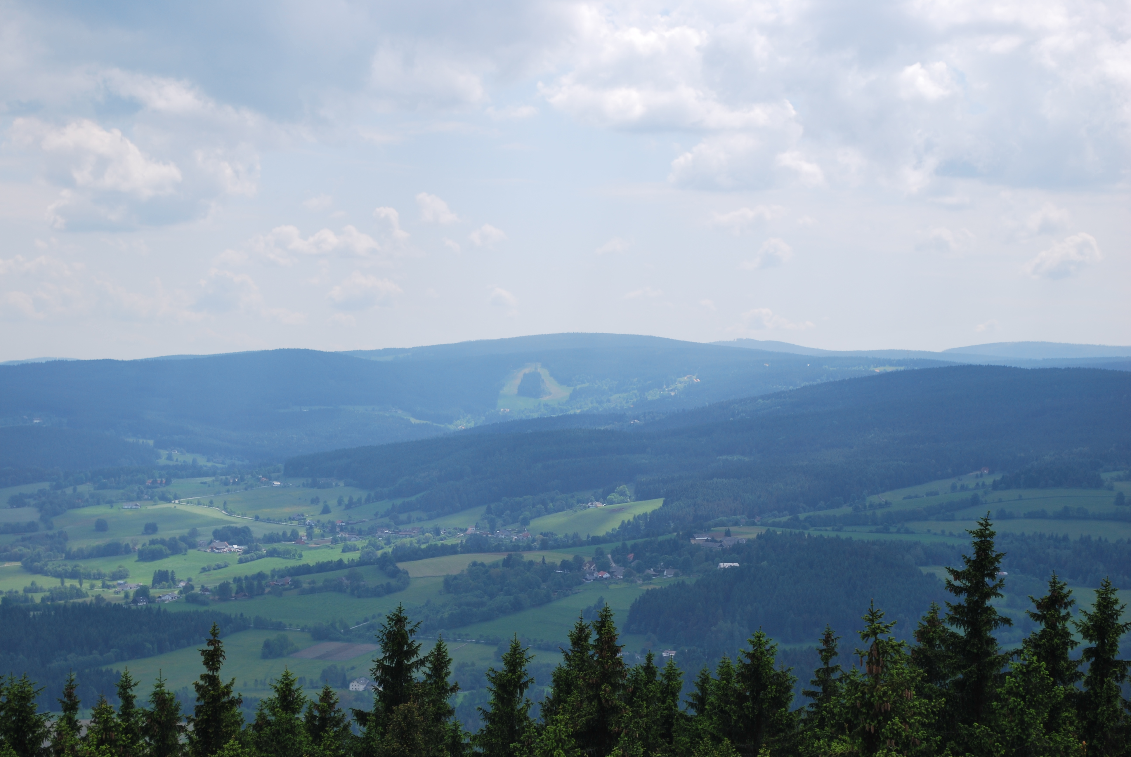 View to the Přilba hill. Klostermann watch tower near Javorník village in Prachatice District, Czech republic. This photograph was taken within the scope of the 'Czech Municipalities Photographs' grant.